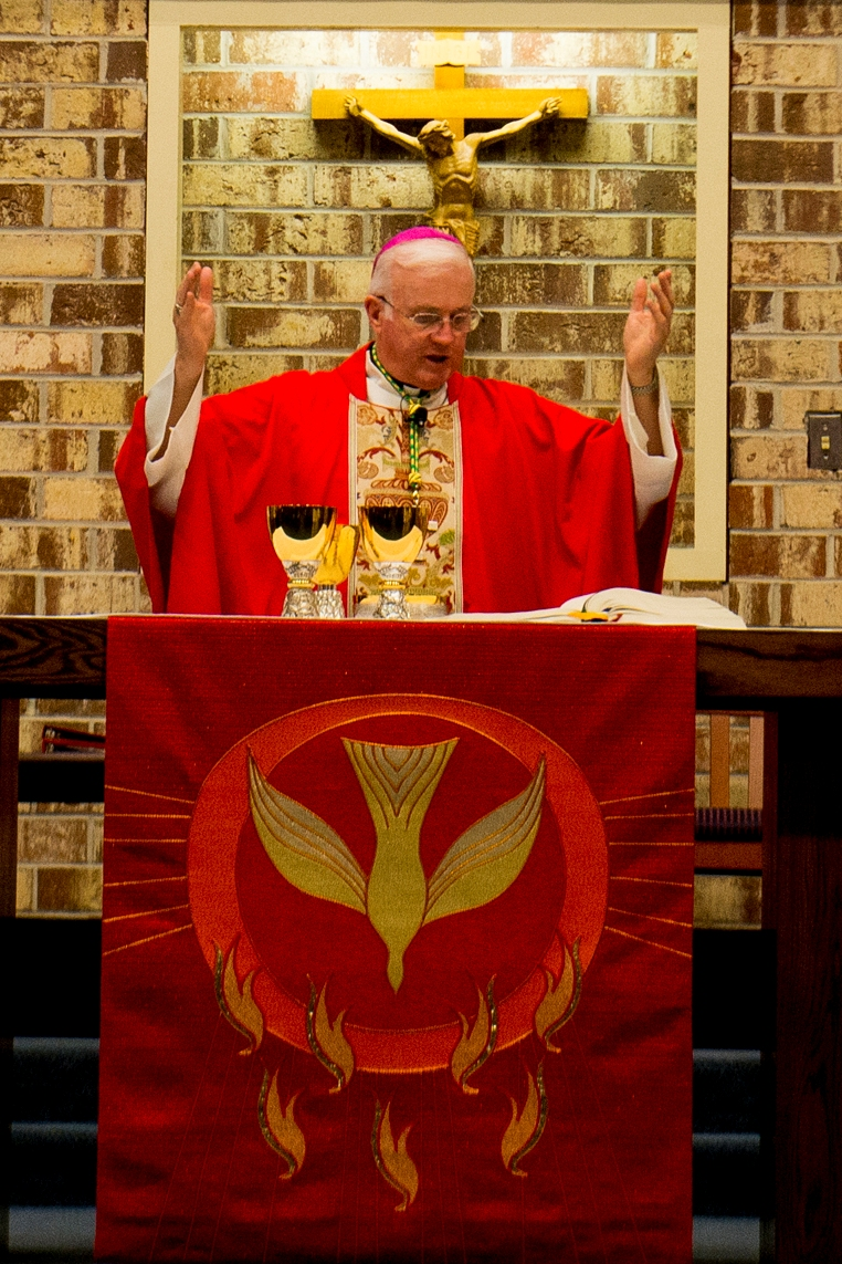 Bishop Richard Higgins, vicar for Veterans Affairs, leads the Liturgy of the Eucharist during Confirmation Mass Jan. 29, 2013, at the Moody Air Force Base, Ga., chapel. Higgins visited Moody to help five members of Team Moody embark on the next stage of their religious journey. (U.S. Air Force photo by Staff Sgt. Jamal D. Sutter/Released)